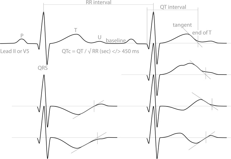 Cartoon illustrating measurement of the QT interval in normal and LQTS ECGs